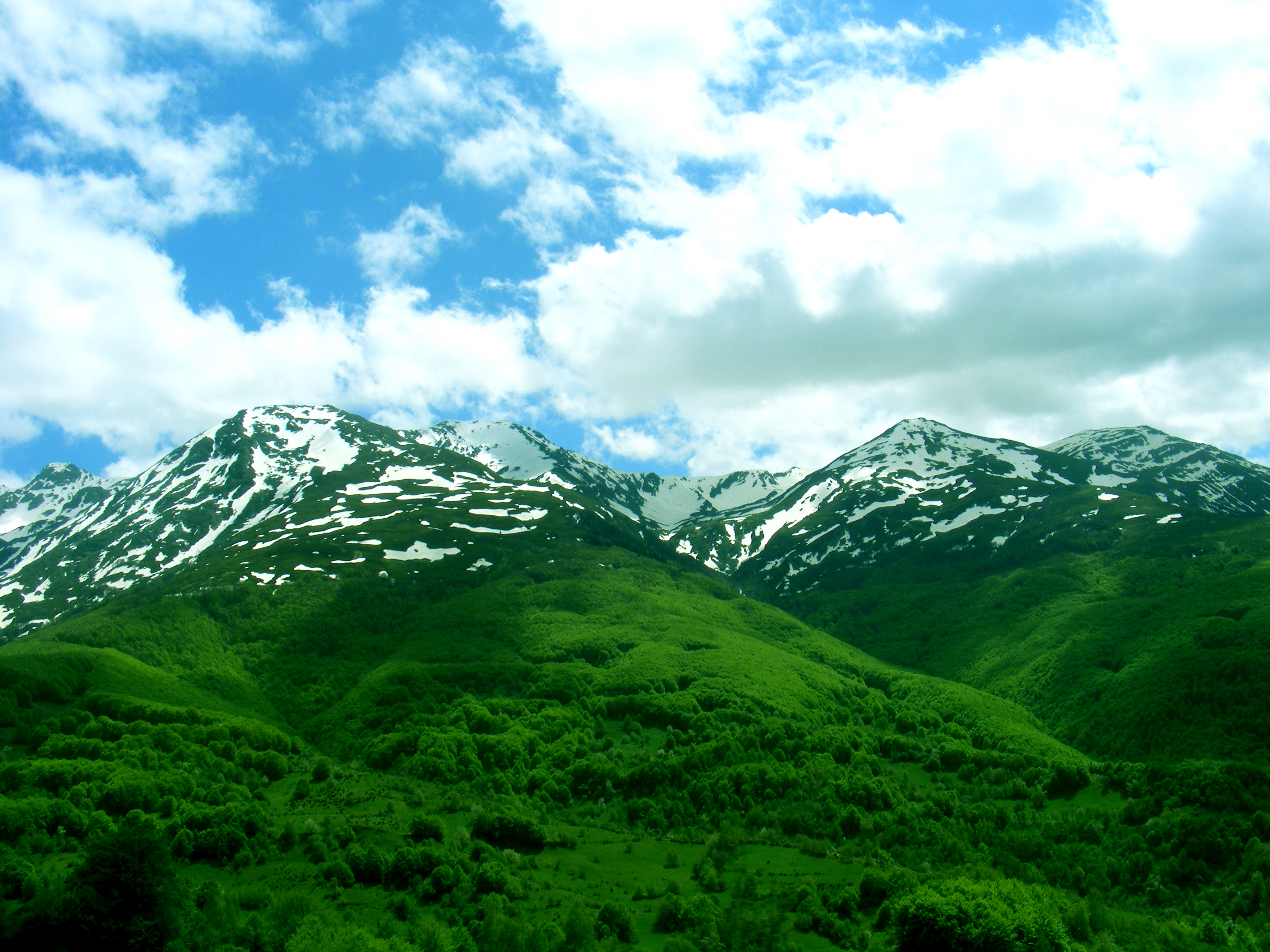 Sharri Mountain - Malet e Sharrit